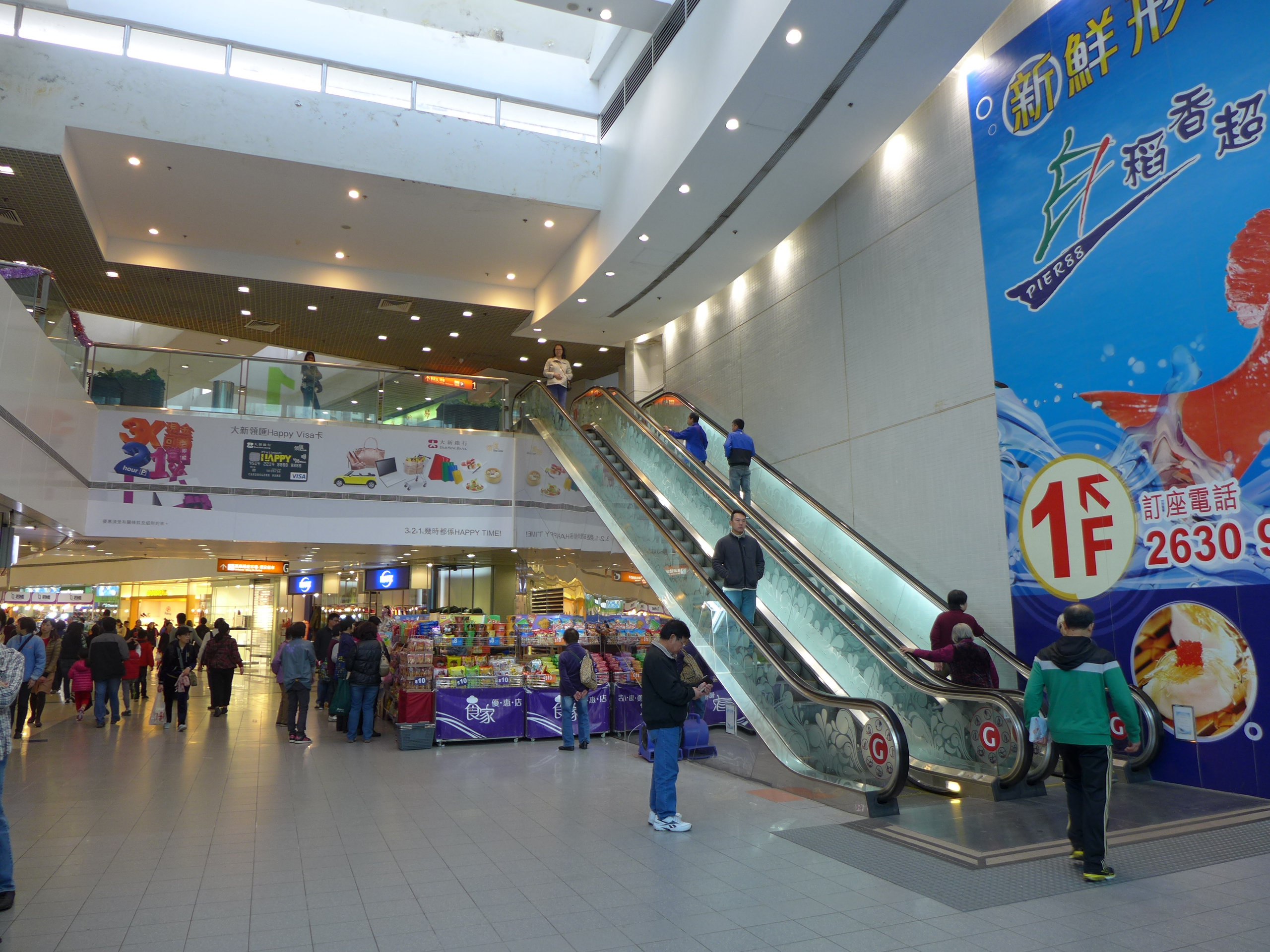 Chung On Shopping Centre Atrium